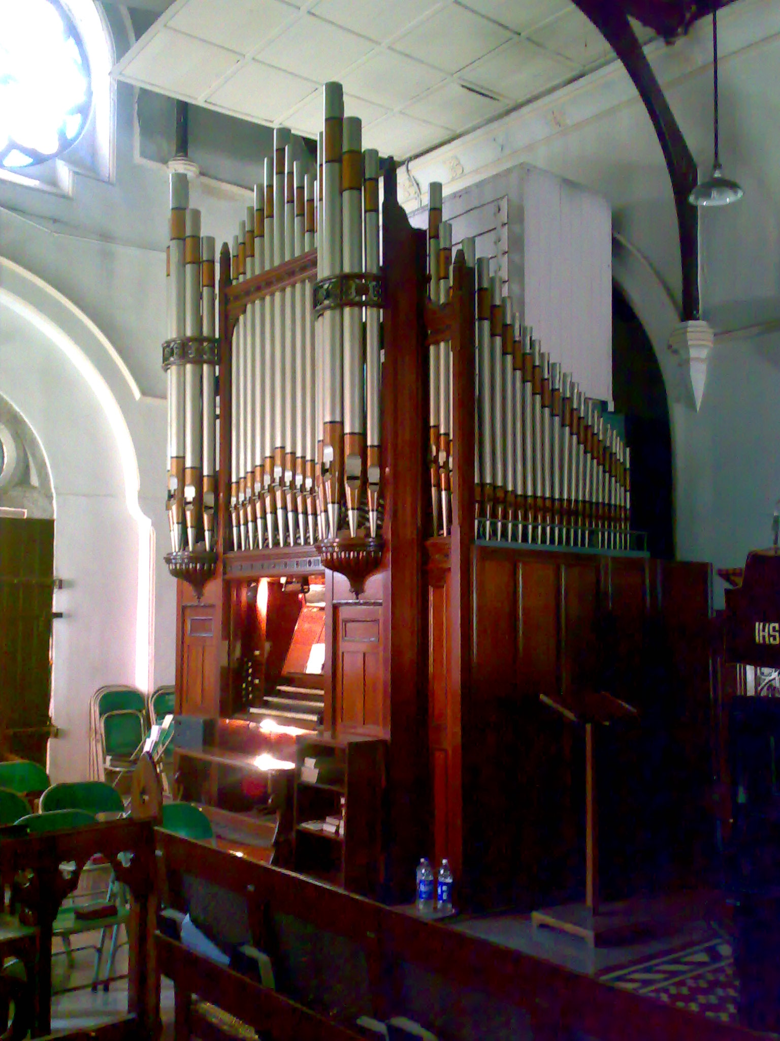 Pipe Organ in Egmore Wesley Church, Chennai, India.